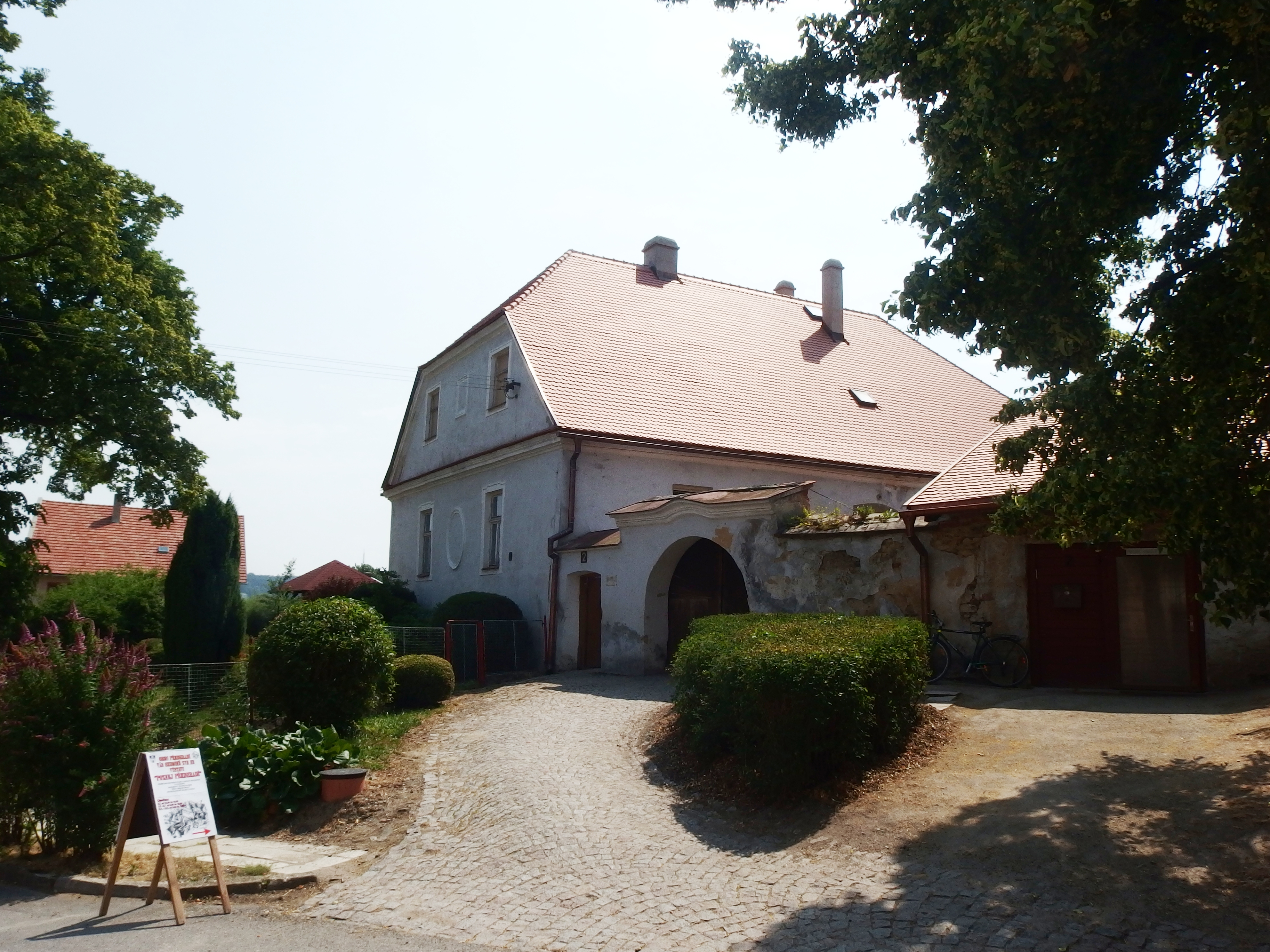 Předhradí, Chrudim District, Czech Republic.